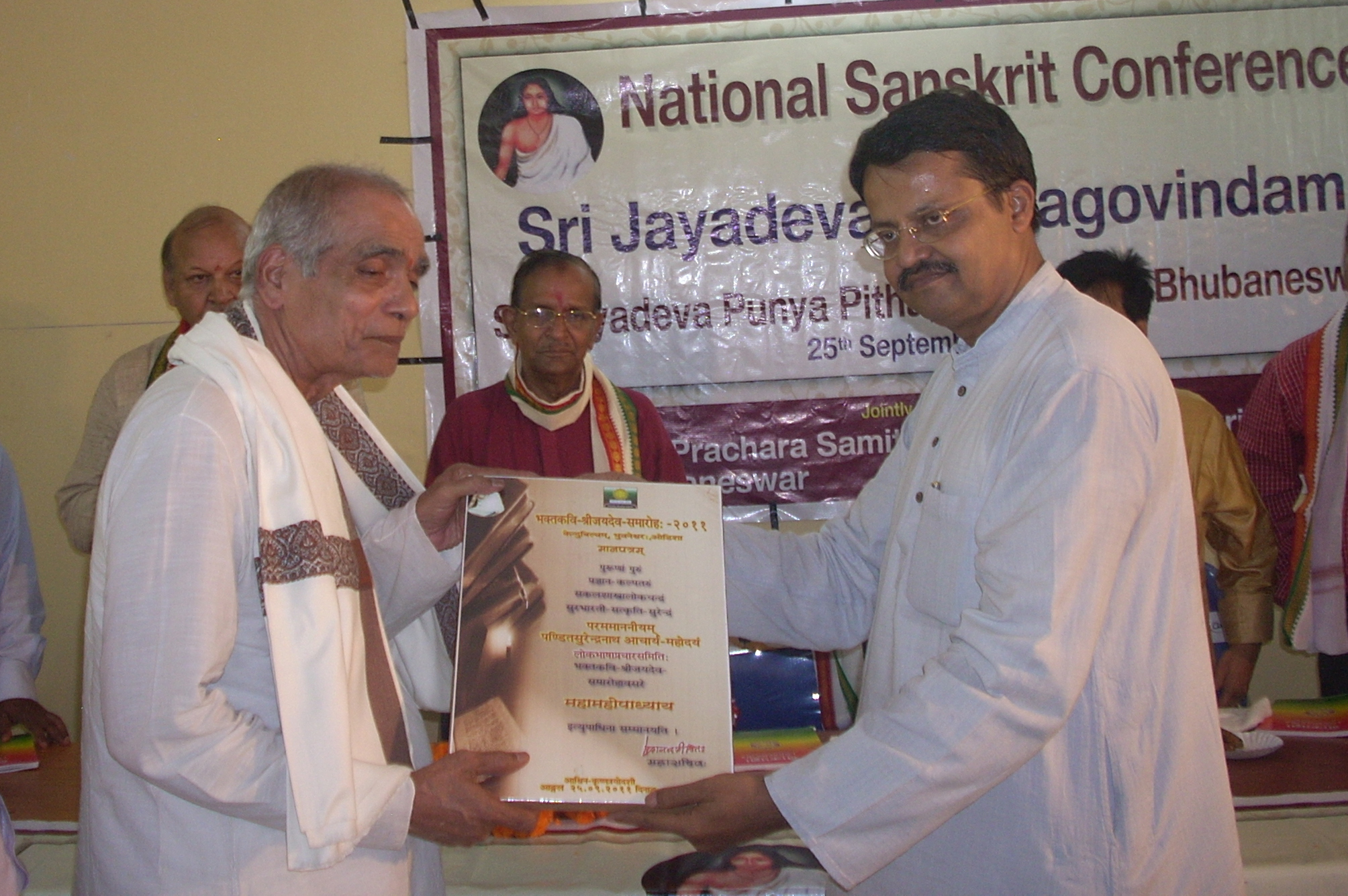 Pandit Surendra Nath Acharya was conferred with the title MOHA-MAHOPAADYAAYA